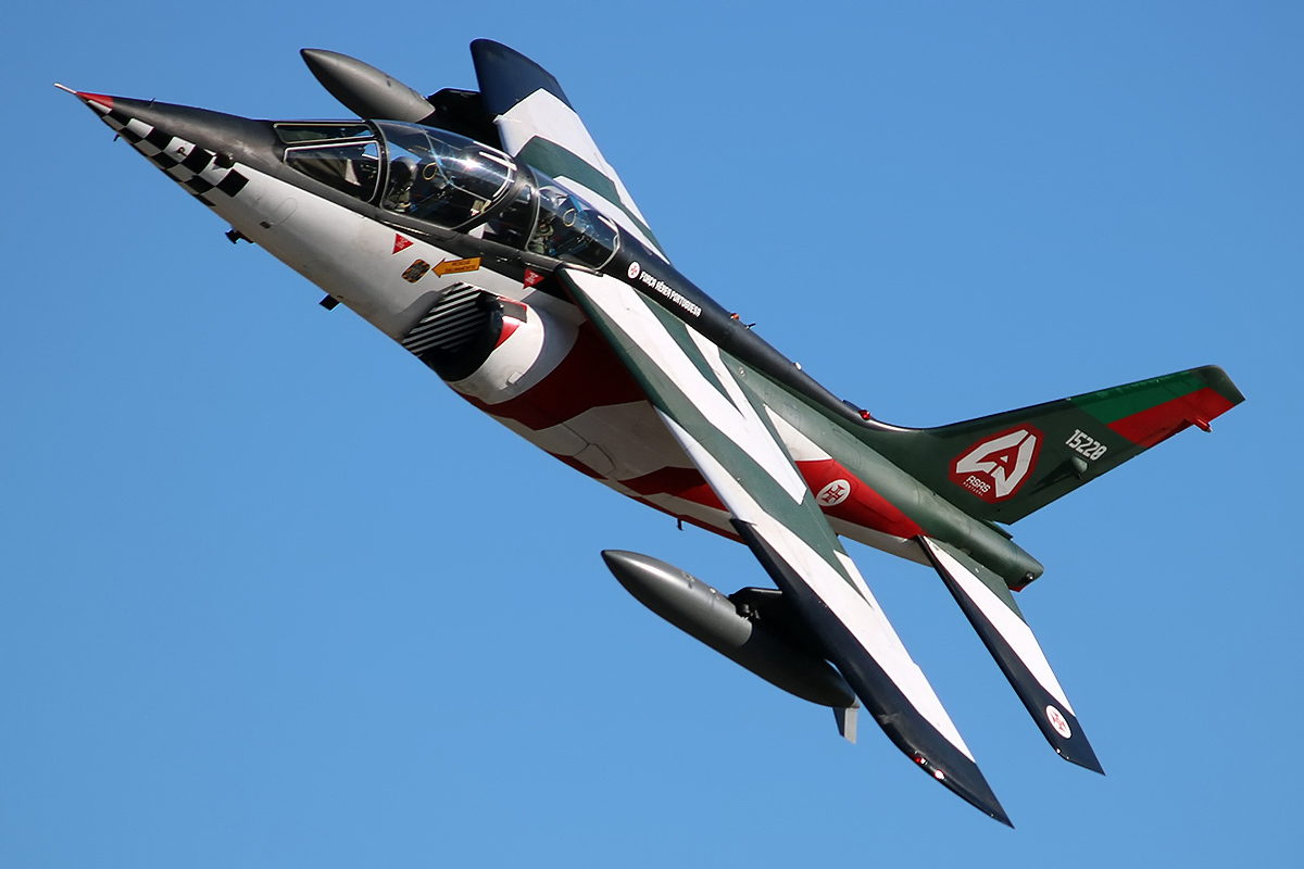 15220 Serial #: 0064 at Beja Air Base - LPBJ